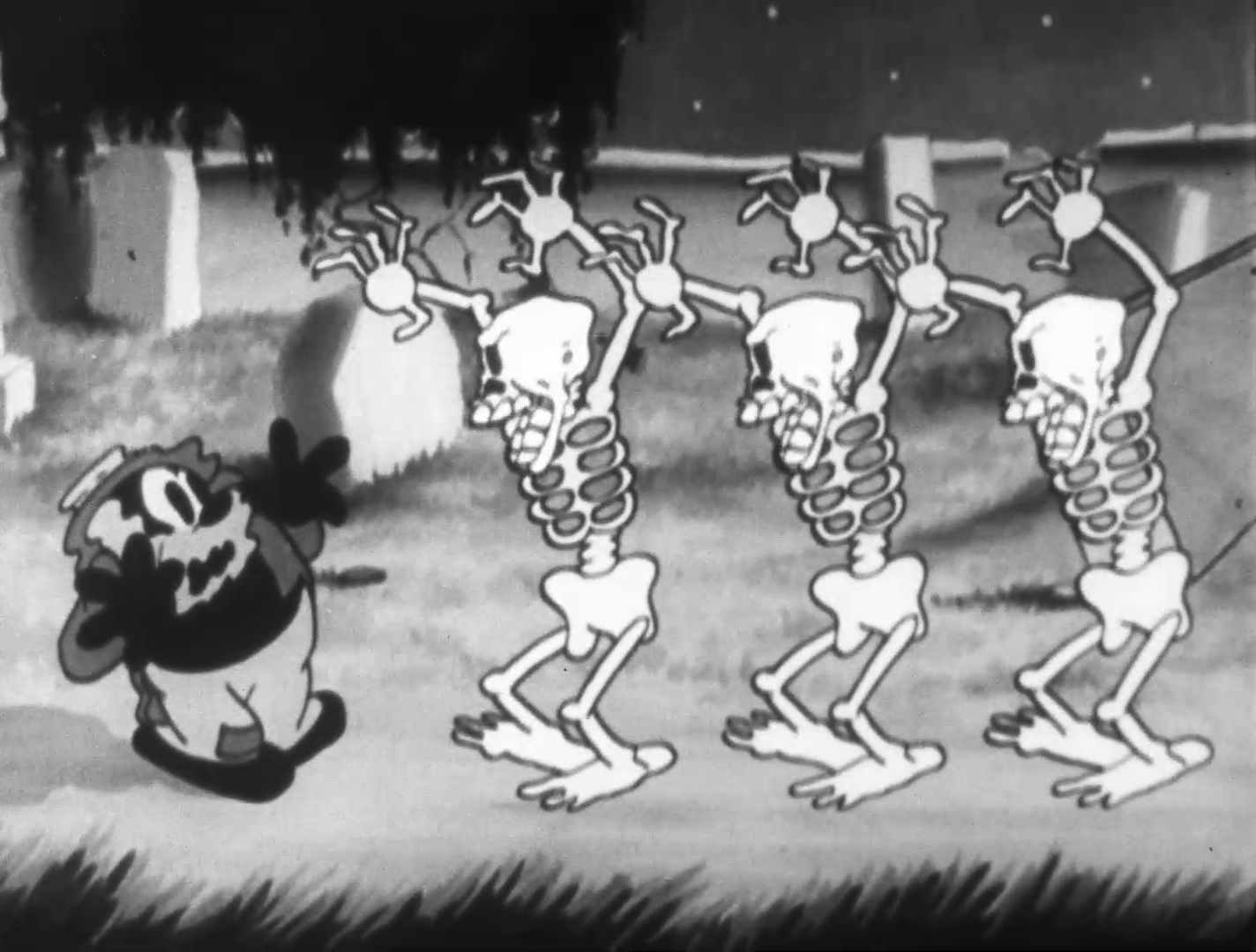 A screenshot of Uncle Tom terrorized by skeletons in the animated cartoon Hittin' the Trail for Hallelujah Land (1931).